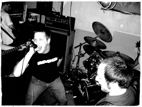 Walk The Line was a Syracuse, NY based hardcore punk band from 2003 to 2006. This picture was from a New Years Eve basement show. Pictured from left to right is Geoff Berger, Tom Kearney, Shawn Hasto, and Sean McMenamin.